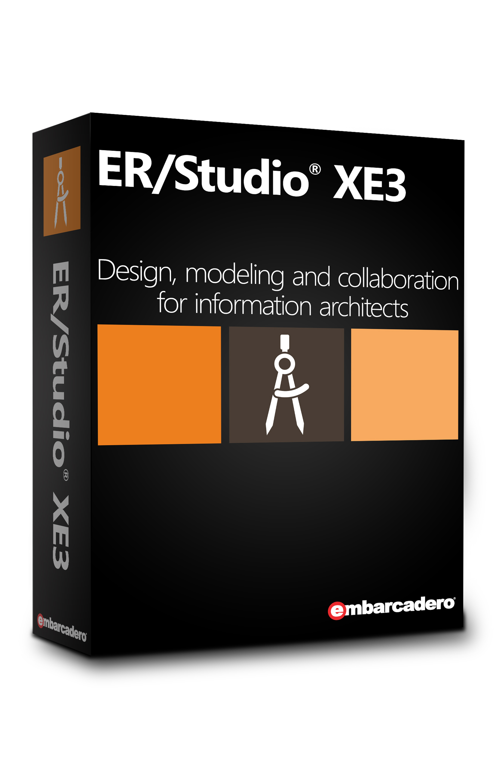 Embarcadero ER/Studio XE3 Box shot